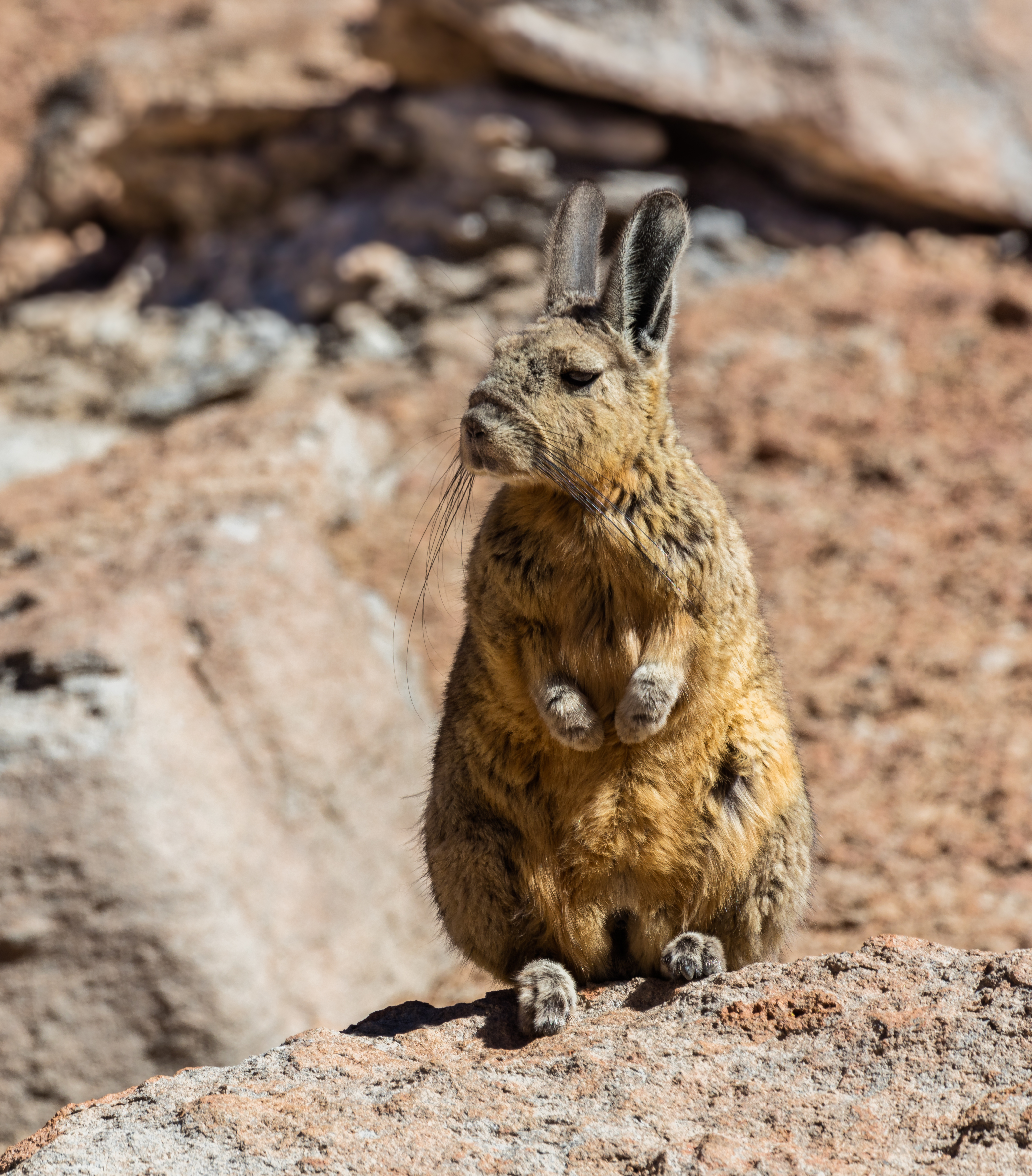 Southern viscacha (Lagidium viscacia), Desert of Siloli, Bolivia